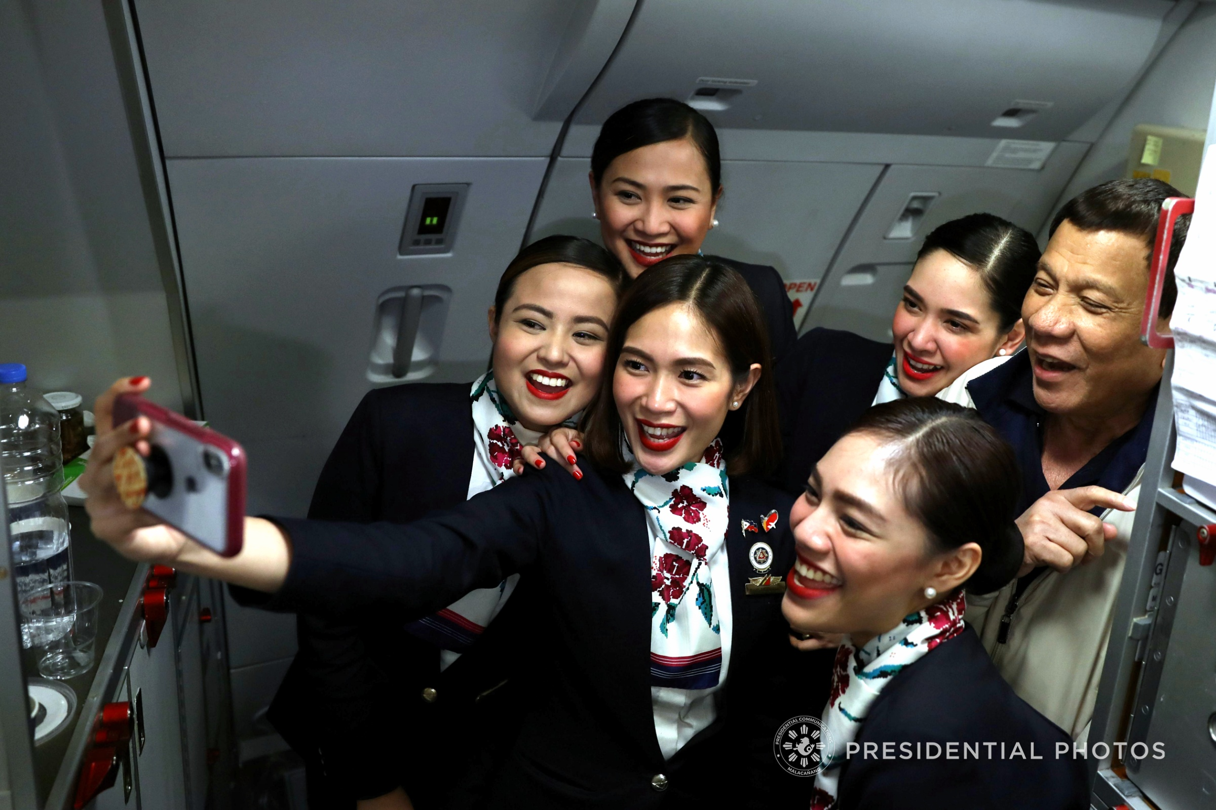 President Rodrigo Duterte poses with Philippine Airlines flight attendants. The original caption is as follows: “ President Rodrigo Roa Duterte poses for selfie with flight attendants of Philippine Airlines chartered flight PR001 as he and his delegation head back to the Philippines on January 26, 2018 following a successful attendance to the Association of Southeast Asian Nations (ASEAN)-India Commemorative Summit. (Photo by Robinson Ninal, Jr./Presidential Photo) ”